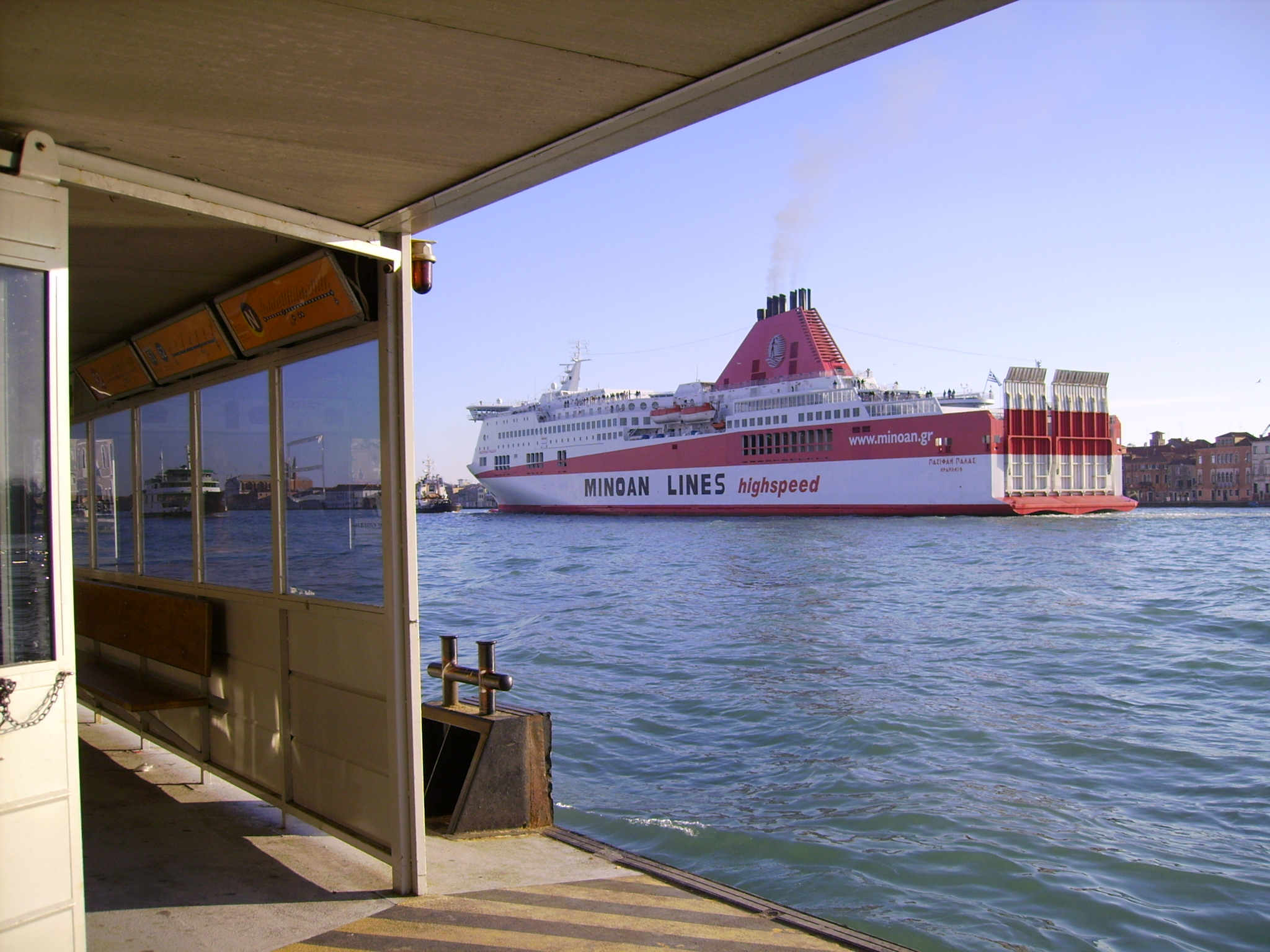 Ferry Minoan Lines on Canale della Giudecca, Venice, Italy Shipname: Ikarus Palace IMO Number: 9144811 MMSI Number: 239513000 Callsign: SWEW Length: 200 m Beam: 30 m